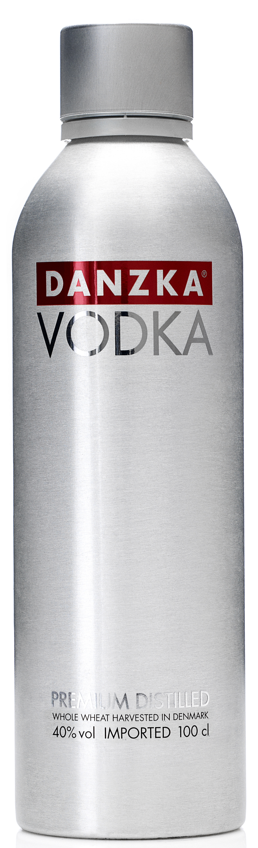 DANZKA Vodka 100 cl bottle